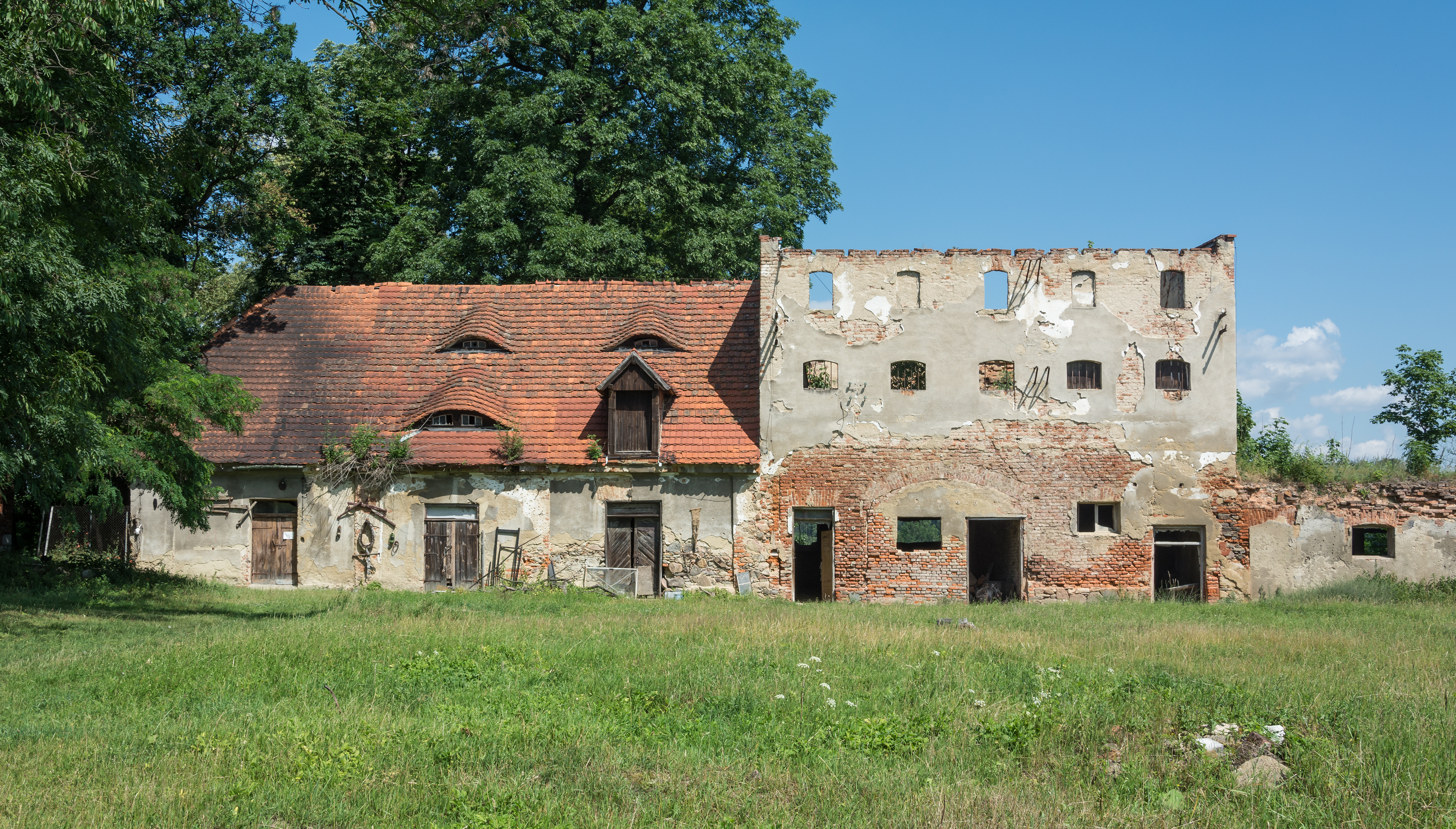 Folwark in Kalinowice Górne